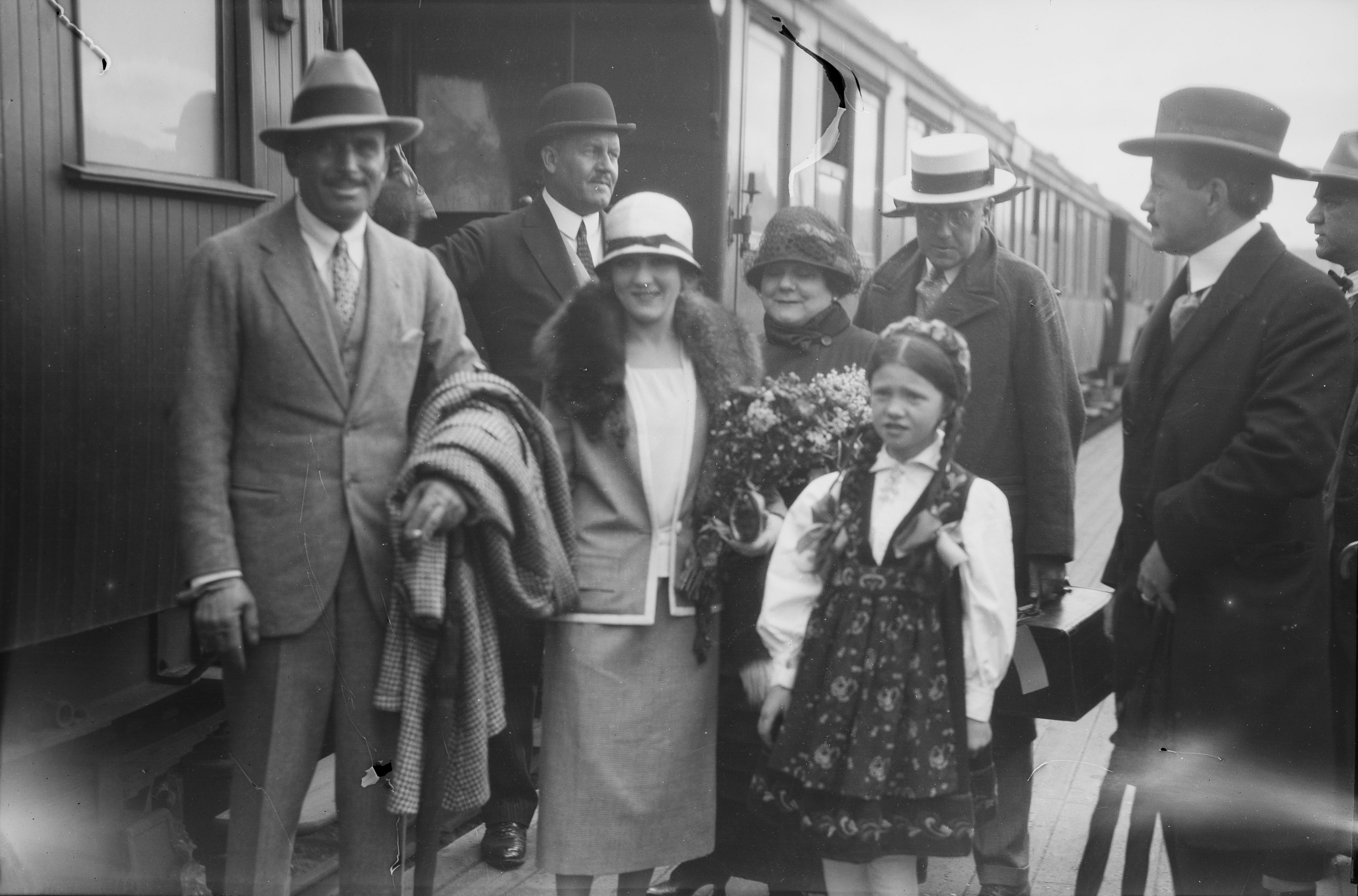 According to the Norwegian newspaper Aftenposten 1924-06-13 Douglas Fairbanks and Mary Pickford planned to visit Kristiania (Oslo) on 18th June 1924, together with Guy Croswell Smith from United Artists in Europe and "personal manager" Mc Farland. According to the newspaper's evening edition of 1924-06-24 the couple arrived Kristiania on Tuesday 24th of June. They stayed only for one day, continuing their European tour in the evening. Depicted person: Pickford, Mary Depicted person: Fairbanks, Douglas